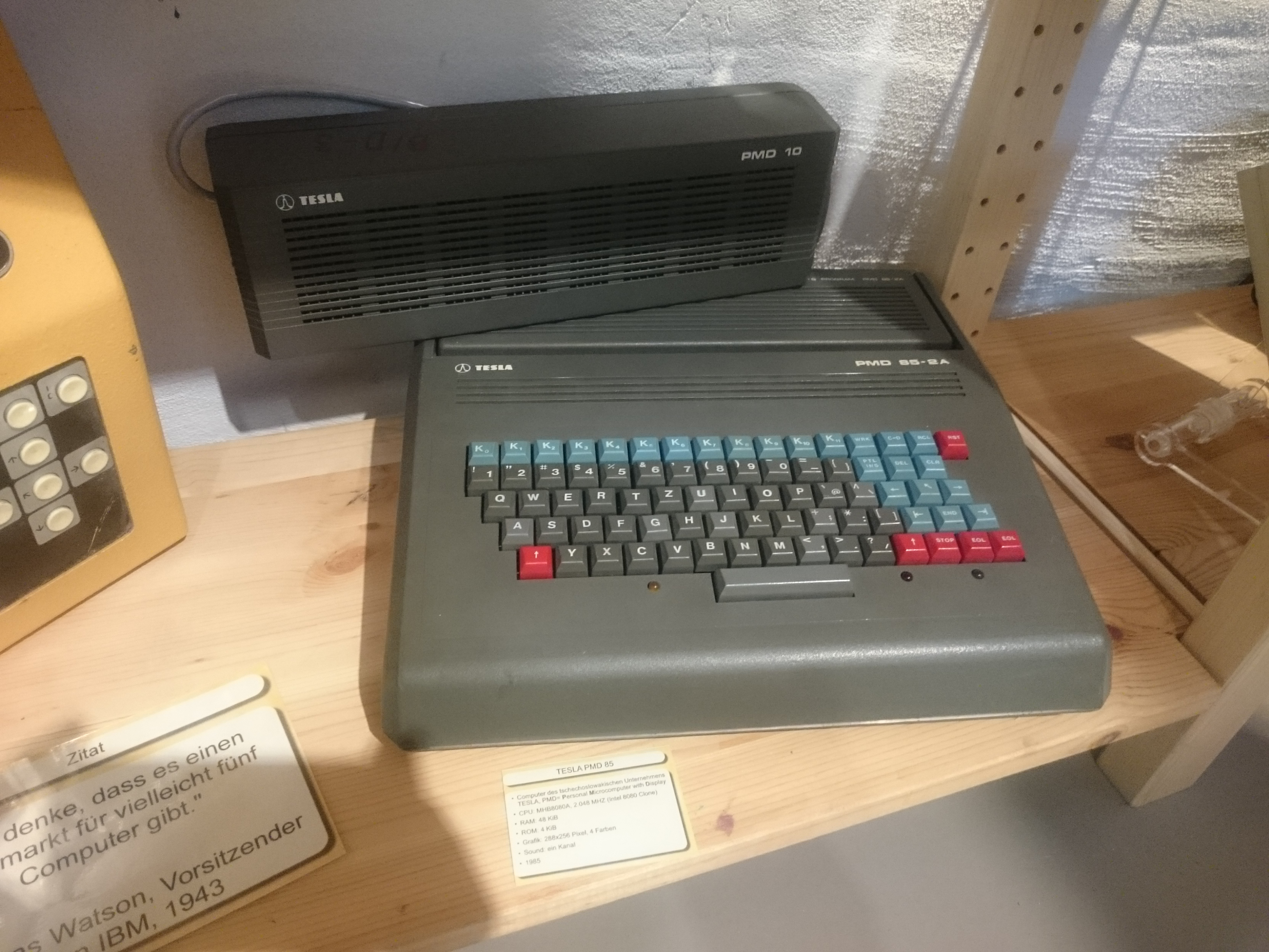 A 1985 Czech Tesla PMD85 with a MHB8080A CPU (Clone of Intel 8080) running at 2.048 Mhz, 48KiB RAM and 4KiB RAM, capable of 288x256 4-color graphics. On Display at Berlin Vintage Computer Festival.